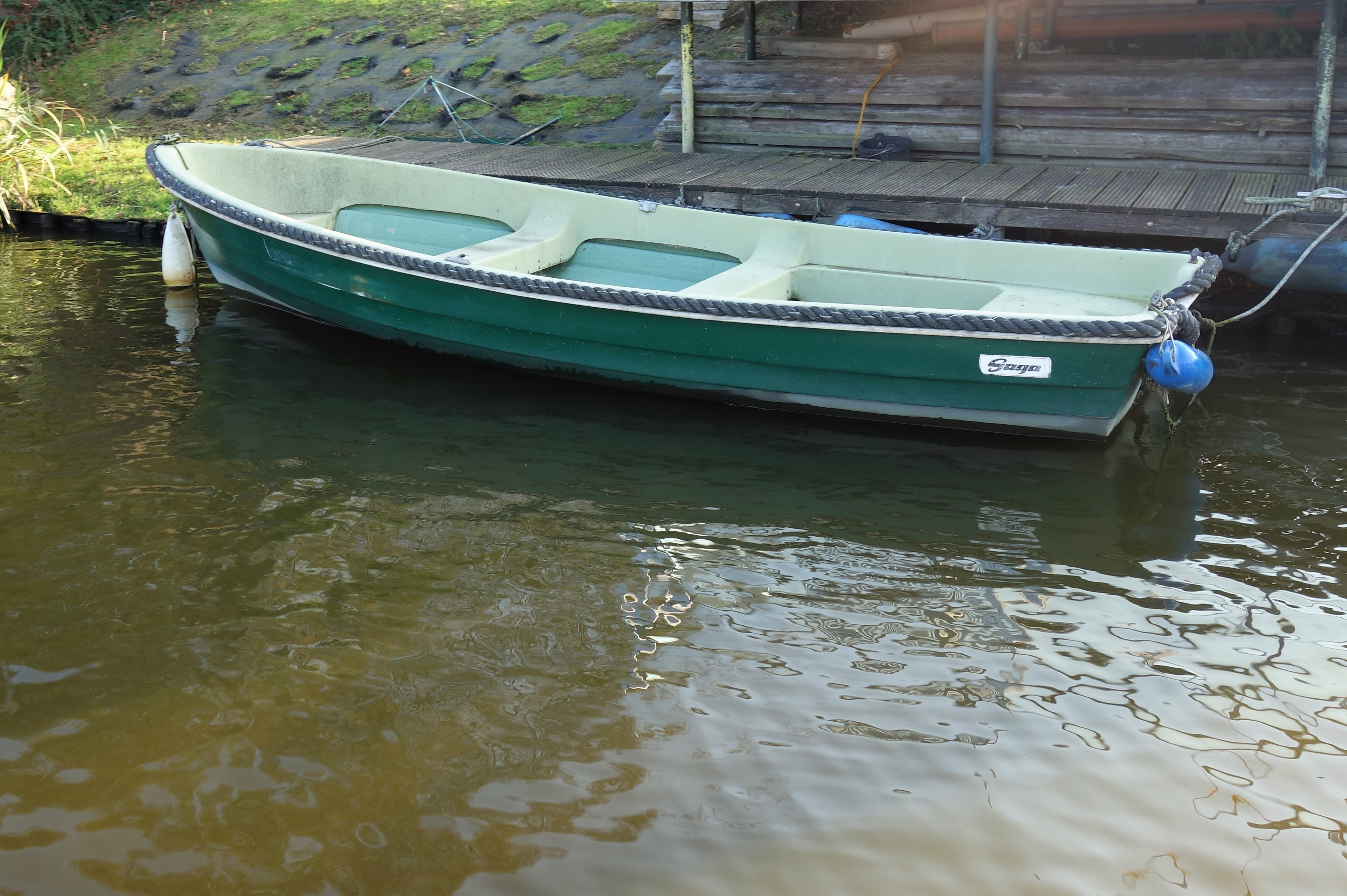 Boat of the Norwegian type Saga 14 in East Frisia